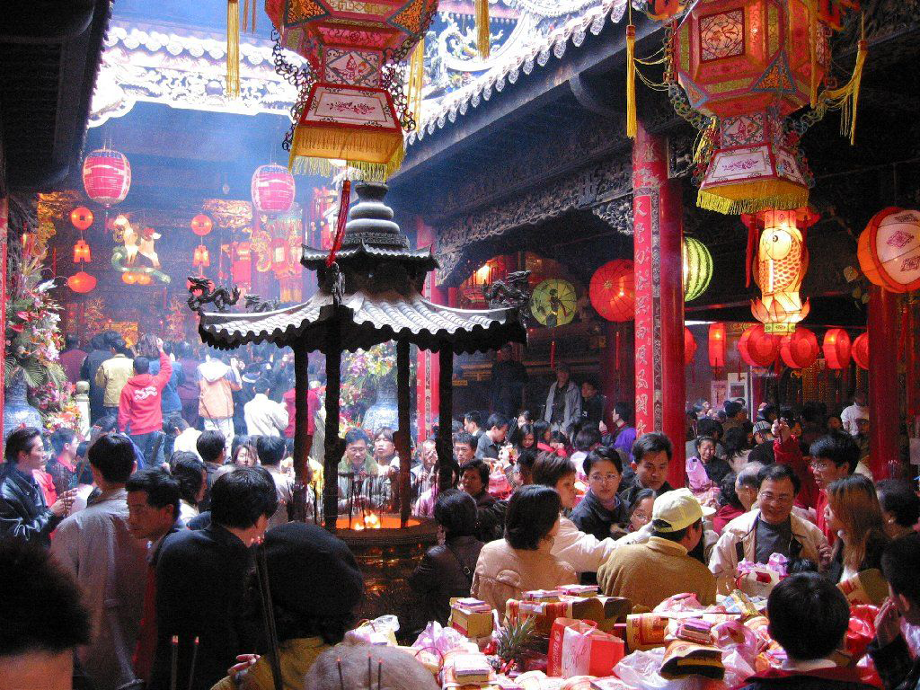 大甲鎮瀾宮(Dajia Jenn Lann Temple) in Taichung (was "Tempel in Taipei"